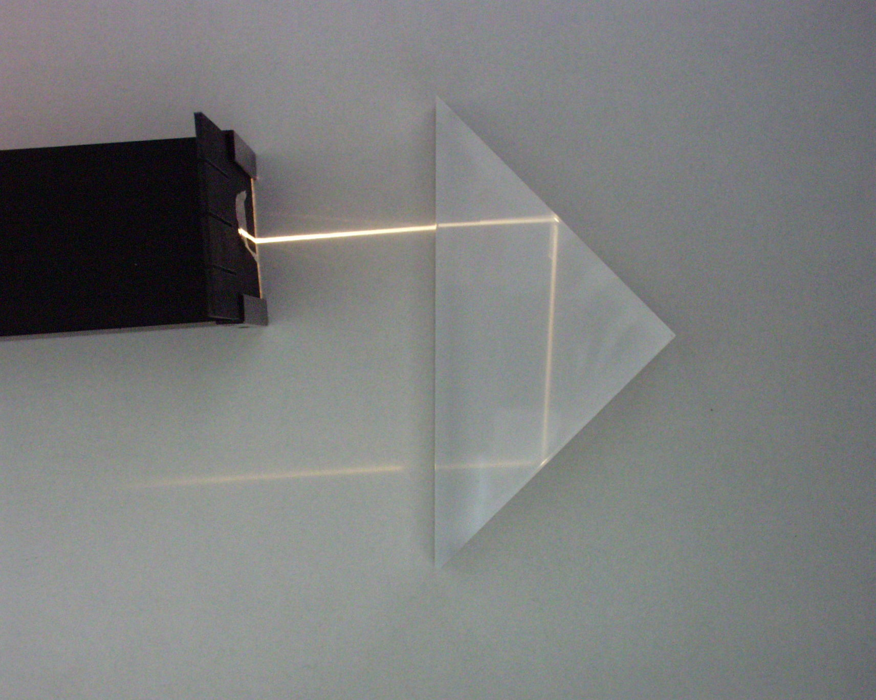 Retroreflection in prism.